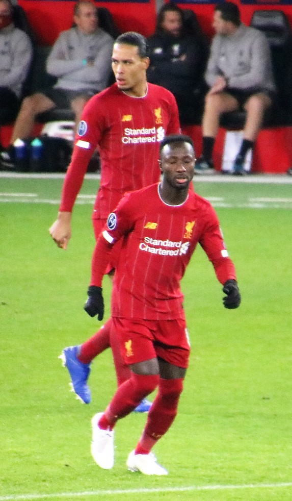 UEFA Champions League 6th round Group stage